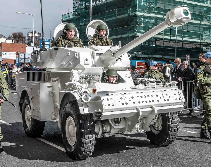 Cropped version of a previous Commons image. Panhard AML-90 armoured car. Cropped to produce a more relevant image for the specific vehicle depicted. Limited contextual relevance to original work.